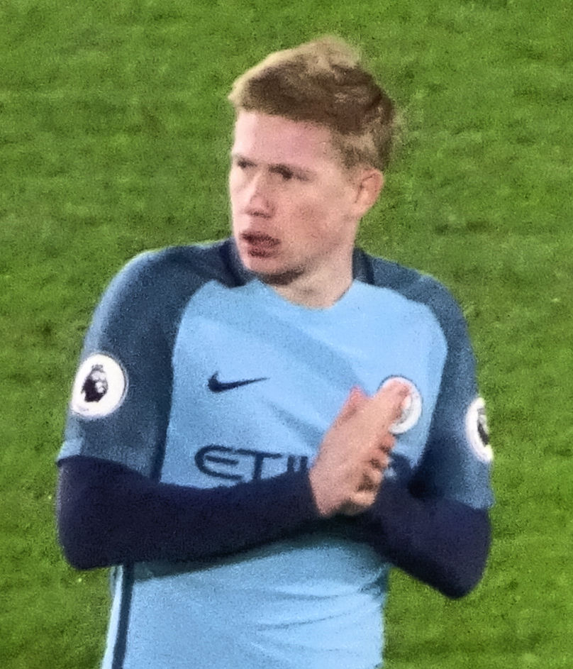 Kevin de Bruyne playing for Manchester City in 2016